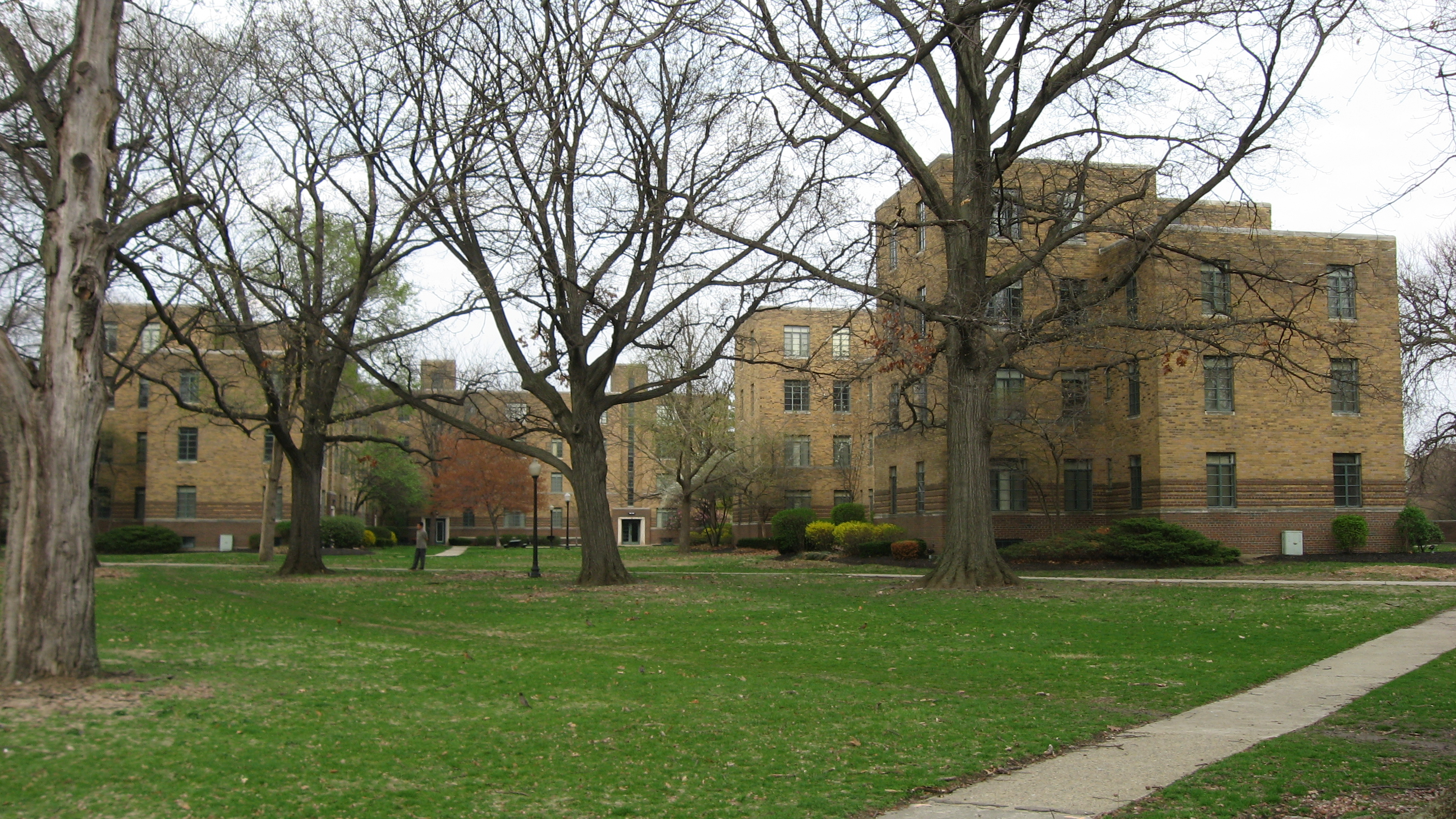 Courtyard between Buildings 18 (left) and 16 (right) of the Lockefield Garden Apartments, located off Indiana Avenue slightly northwest of downtown Indianapolis, Indiana, United States. Built in 1935 and since converted into dormitories, it is listed on the National Register of Historic Places.